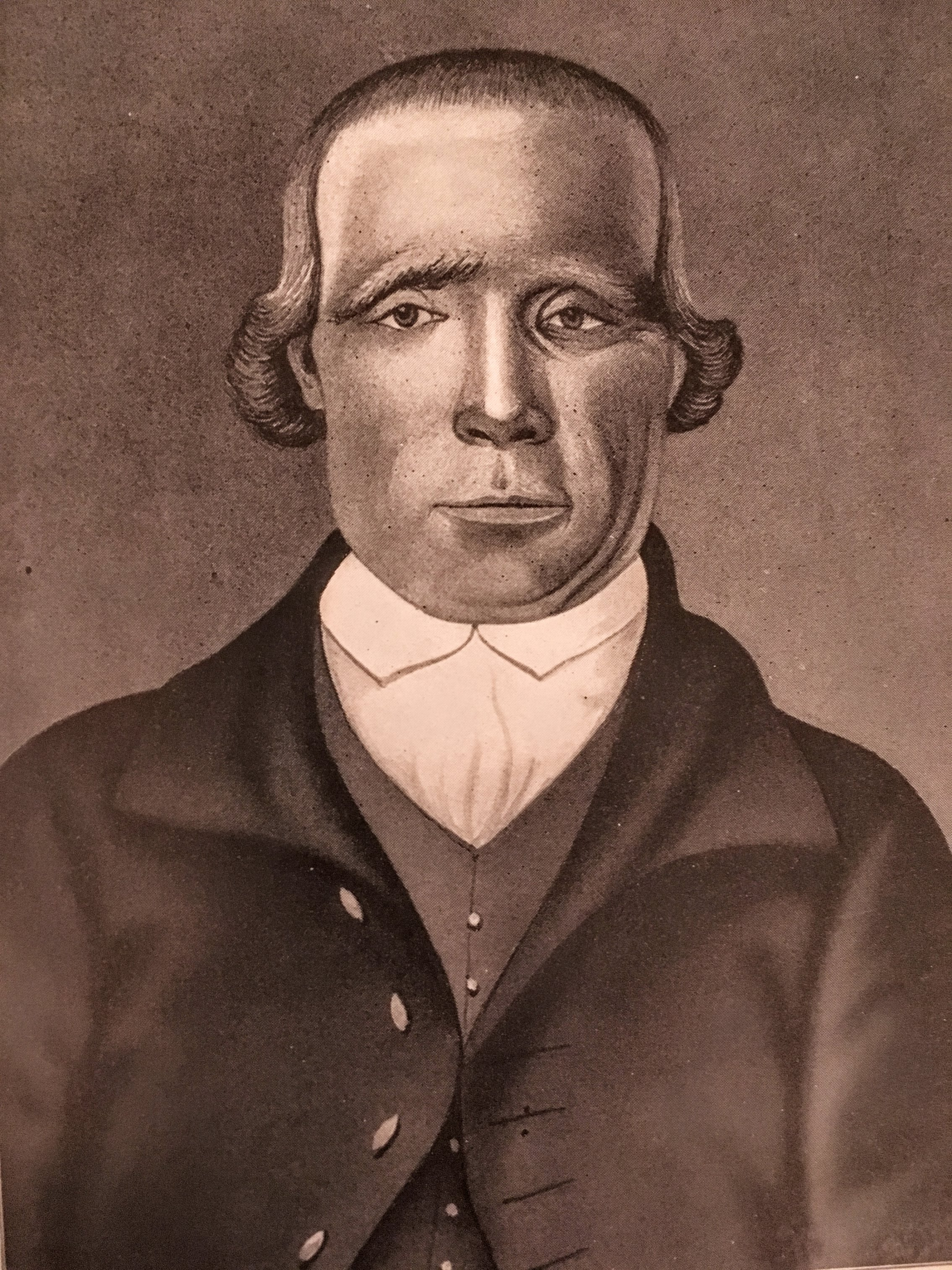 Portrait of John Goldie (or Goudie), philosopher